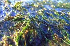 A seagrass, Halodule sp. EPA photo, no copyright.